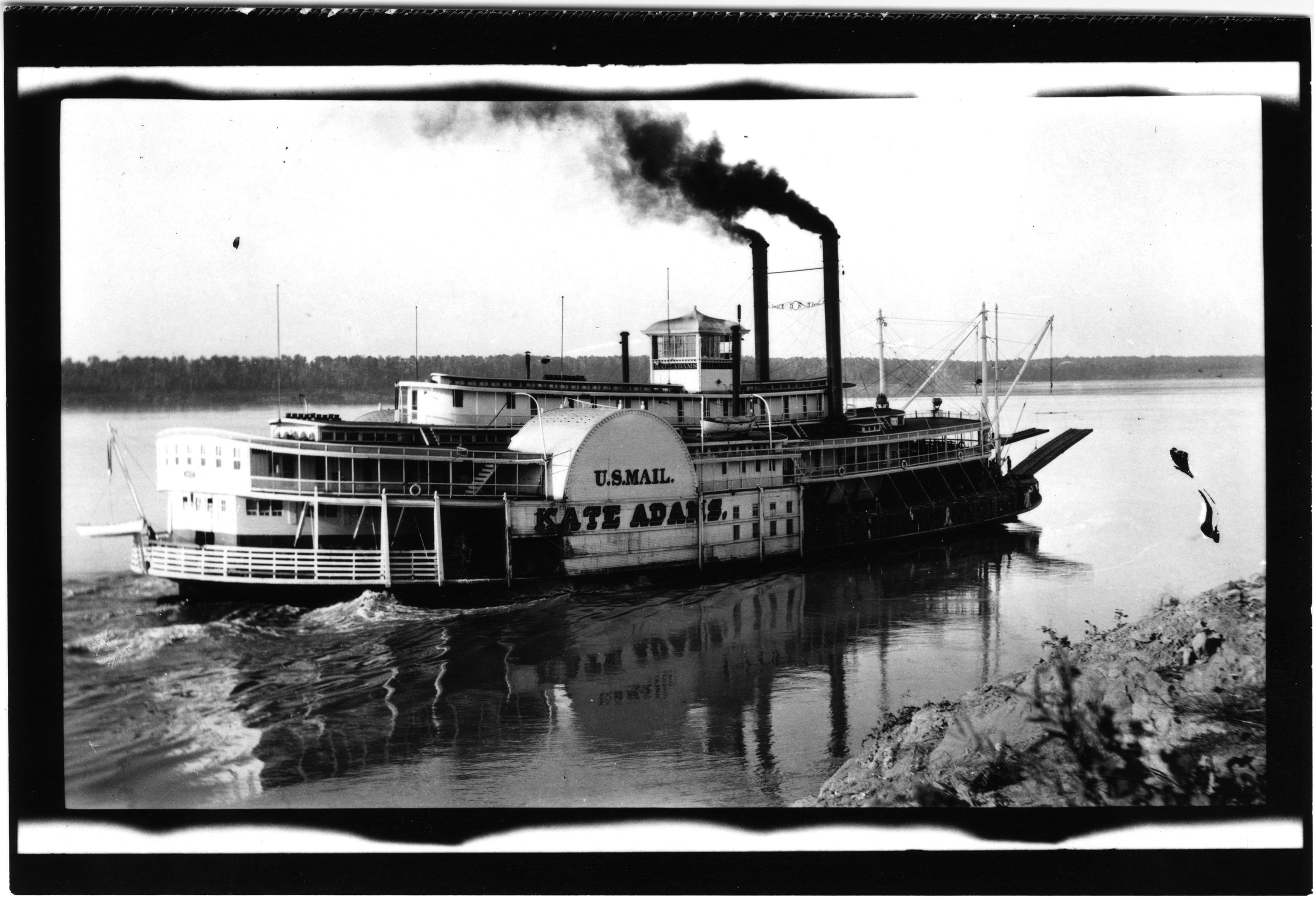 Collection: Painter (Milton McFarland, Sr.) Collection Call number: PI/1988.0006 System ID: 98672 Str. Kate Adams. Please see our profile page for information on ordering. Scanned as tiff in 2008/05/06 by MDAH. Credit: Courtesy of the Mississippi Department of Archives and History